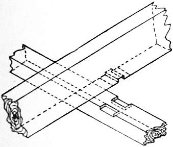 Cogging Joint, Encyclopædia Britannica 1911